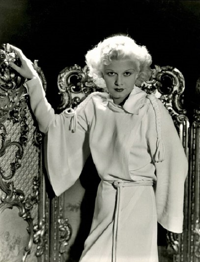 Jean Harlow